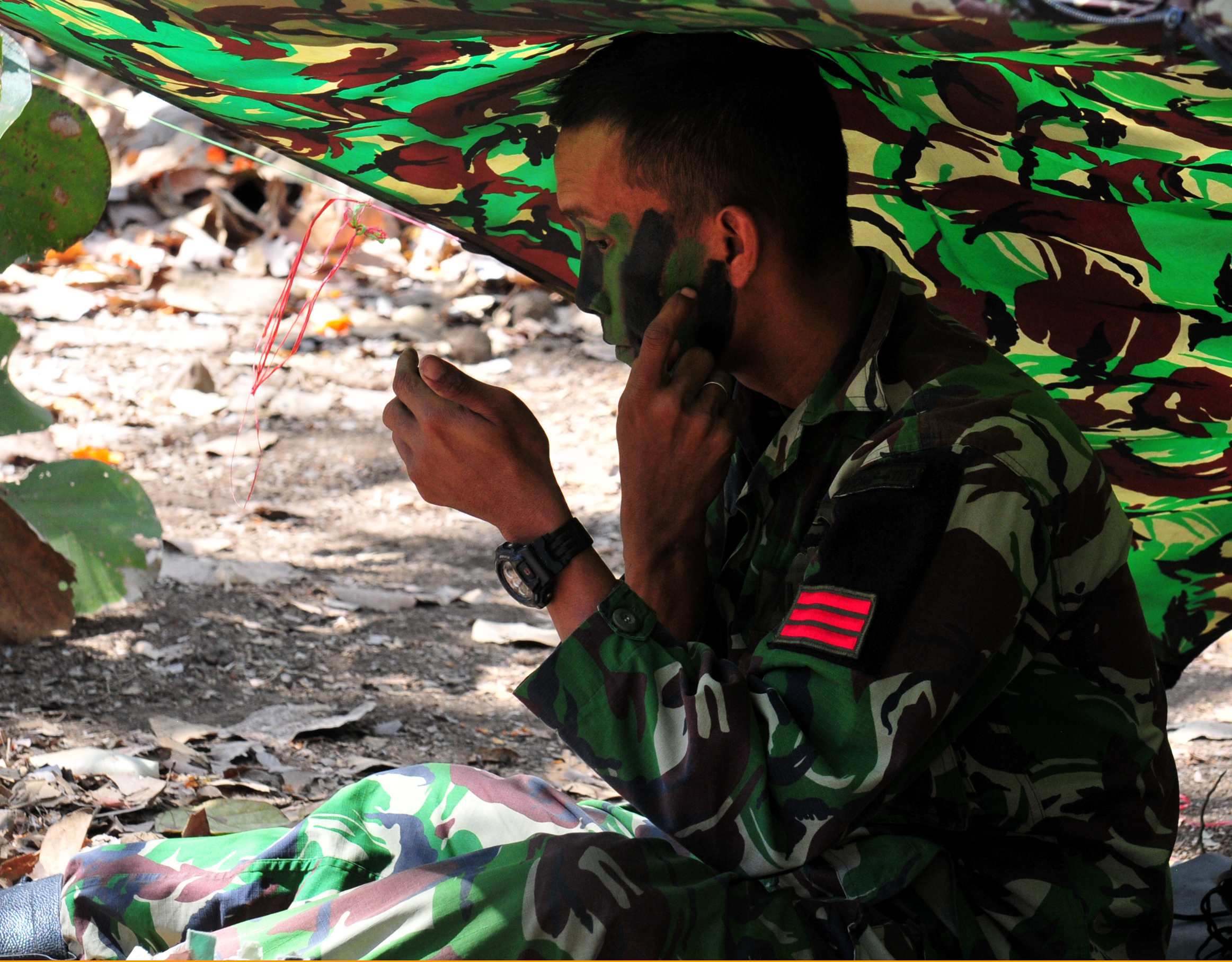 Tantra Natisonal Indonesian Armed Forces Soldier applies camouflage paint to his face during operation Garuda Shield 2014. The Garuda Shield field training exercise, a bilateral, tactical military exercise sponsored by U.S. Army Pacific Command and hosted by the Indonesian armed forces. Approximately 1,200 personnel from U.S. Army and Indonesian armed forces will conduct a series of training events focused on peace support operations. (Photo by U.S. Army Sgt. 1st Matthew Veasley, 16th Mobile Public Affairs Detachment)